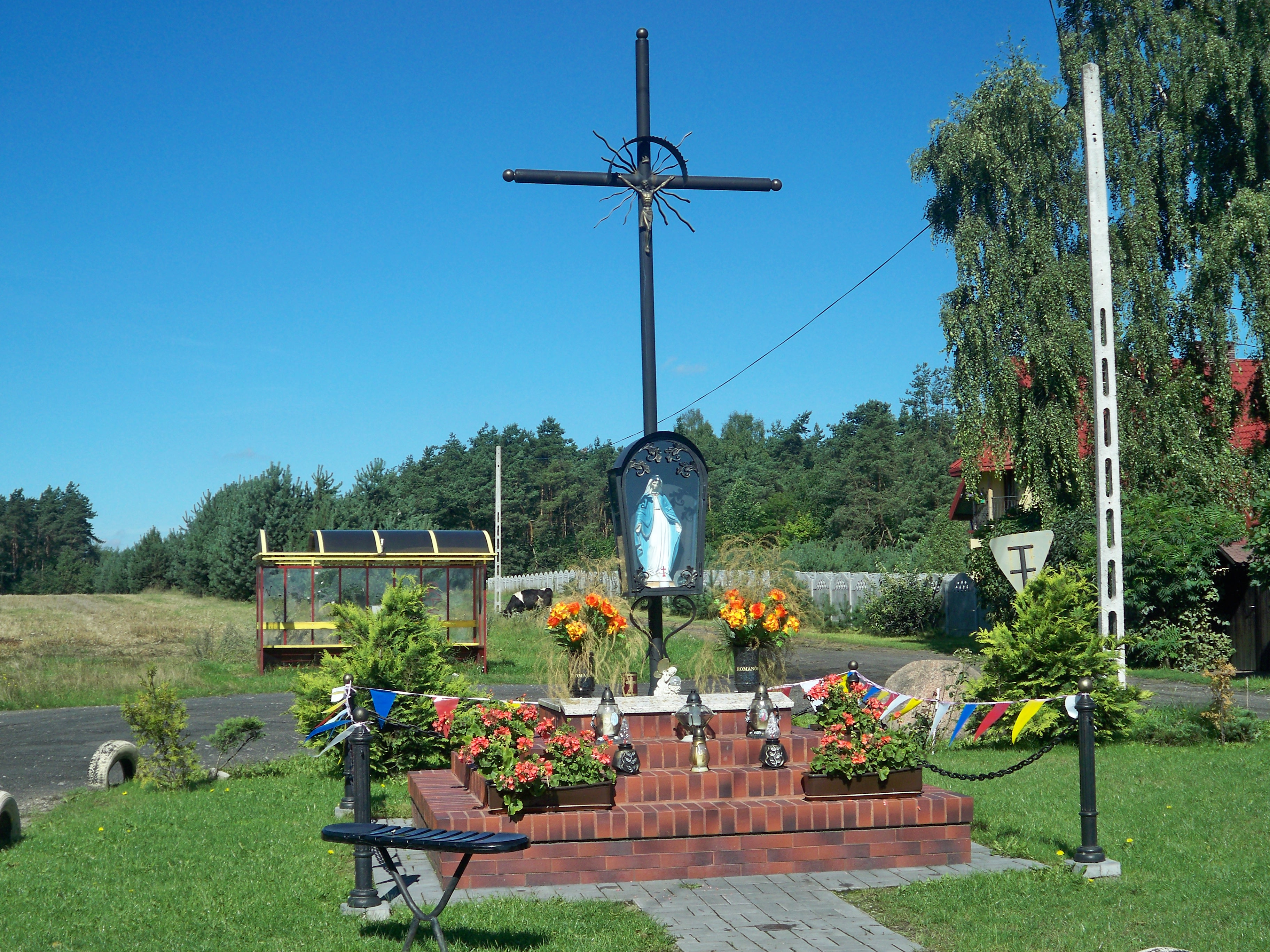 My photo